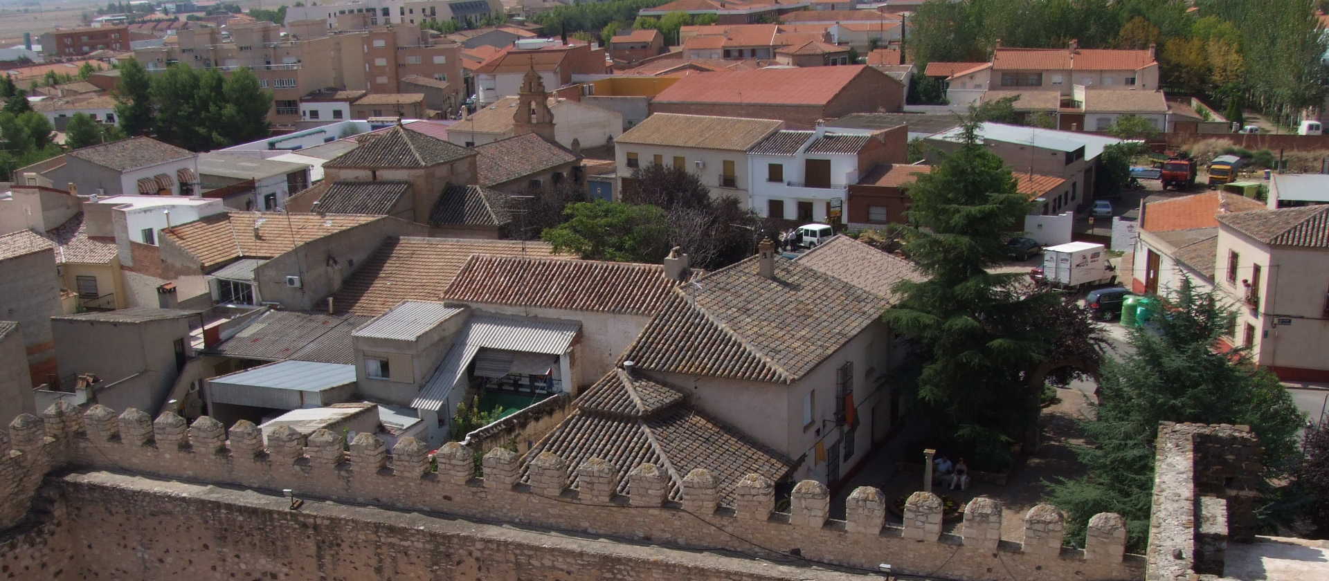 Bolaños´s Skyline fron the castle of Dª Berenguela